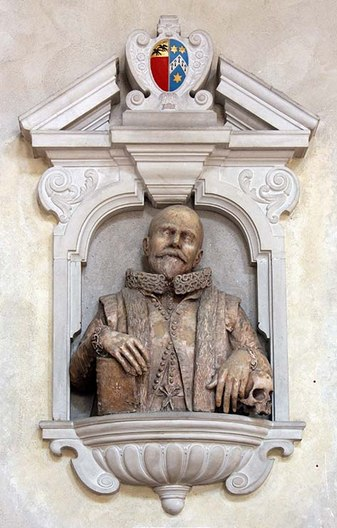 St Giles, Cripplegate, London EC2 - Wall monument, near to London, City of London, Great Britain.